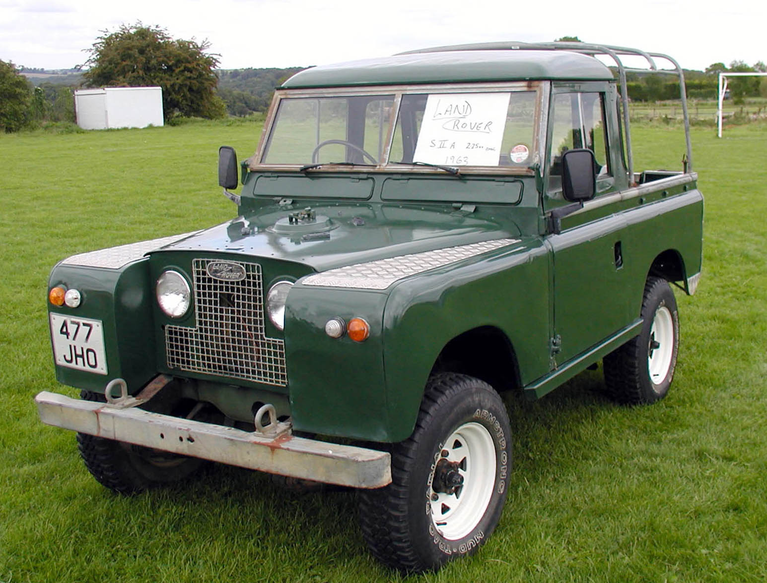 1963 Land Rover SIIA at Coalpit Heath car show, near Bristol, England. Taken by Adrian Pingstone in July 2004 and released to the public domain.